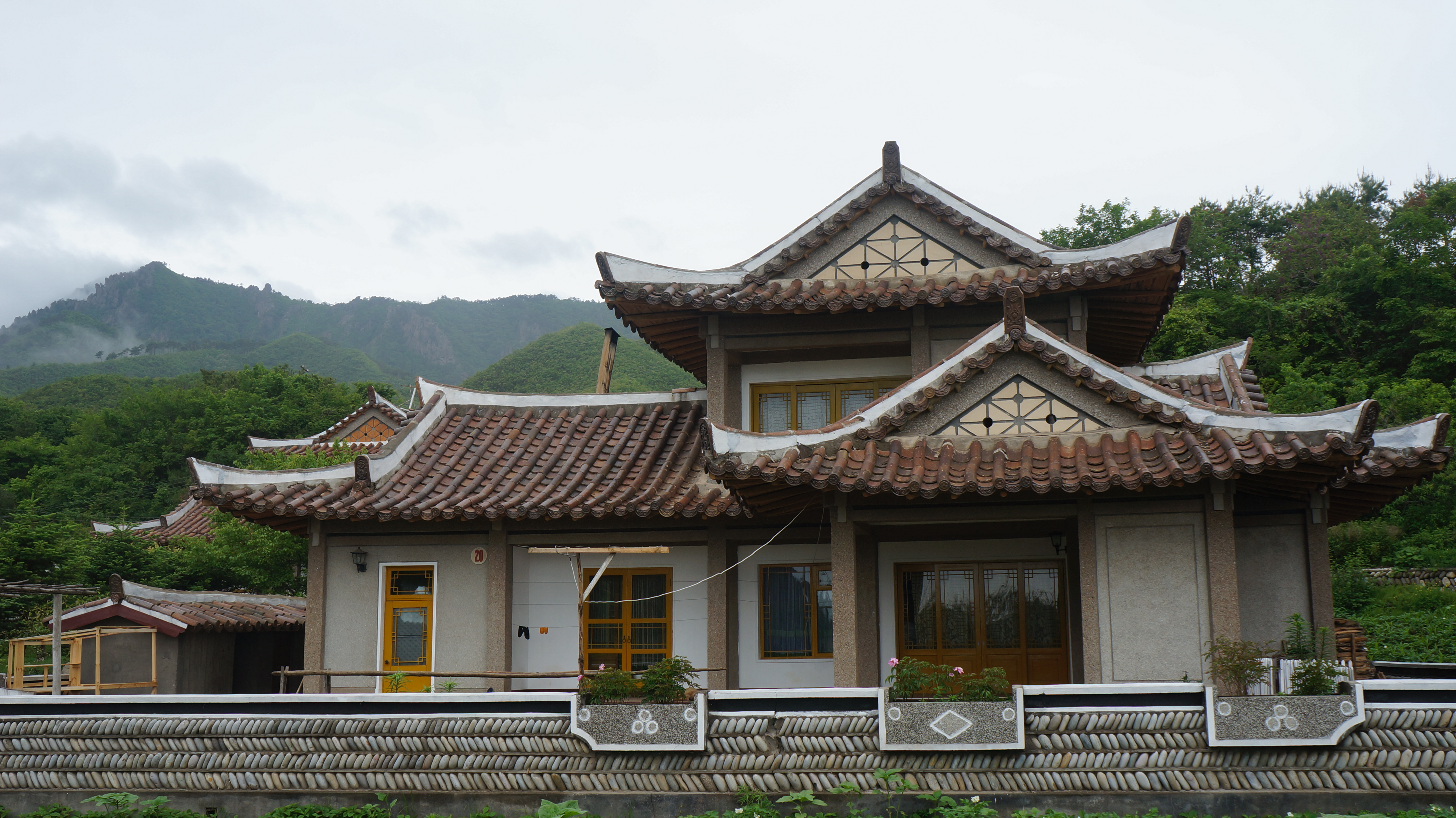 Homestay at Chilbo Mountains